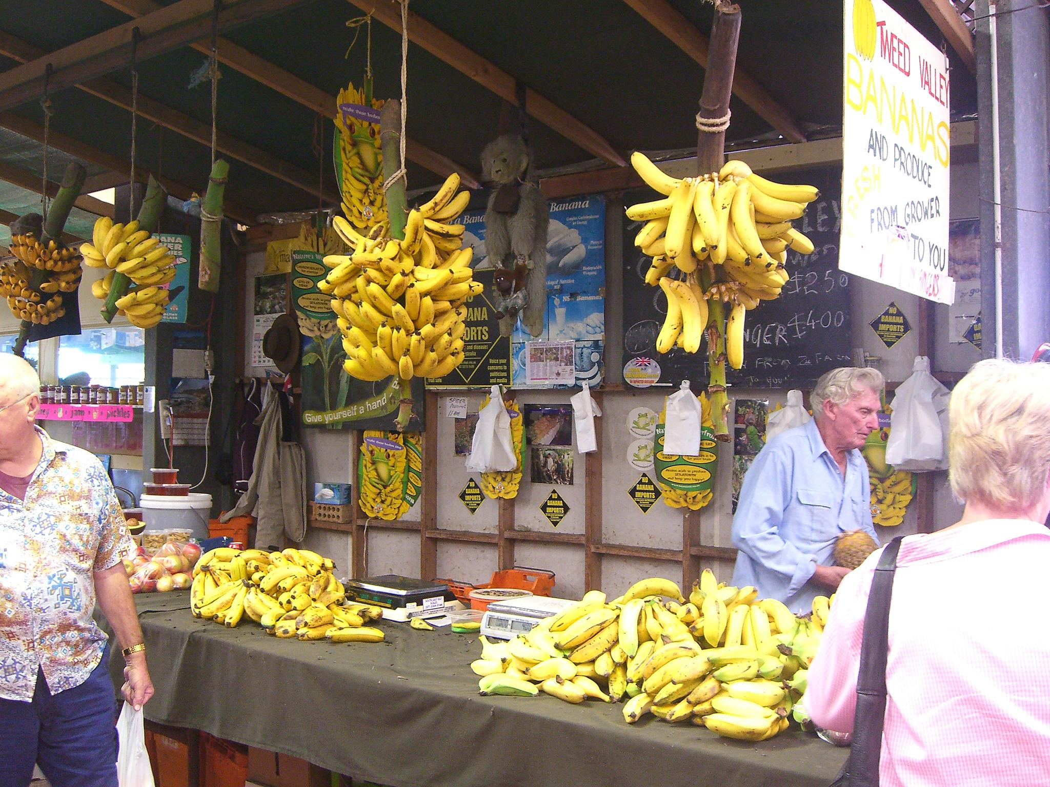 A trash and treasure market... but the emphasis is on cheap Made in China goods. No wonder it didn't get a mention in the Lonely Planet. Just as well it wasn't hard to get to on public transport. Visitors to this enormously popular Treasure Trove can browse in a relaxed market atmosphere and an environment where individuals and families can spend a couple of hours or a whole day searching for bargains, have a meal, be entertained and generally have a great time. The Markets have become a virtual institution on the Gold Coast, drawing weekend crowds of more than 25 000. Over the years the Markets have become a bargain hunters paradise providing an almost unlimited variety of products from 500 stalls. Plant Nurseries, Fruit & Vegies, Clothing, Shoes, Arts & Crafts, Watches, Jewellery, Tools, Leathergoods, Butchers Shops, Bakery & Fish Shop just to name a few of the many diverse types of businesses with a large variety of unique and innovative goods for sale, all at bargain prices. Enjoy a world famous market breakfast from 6:30am or have a snack, enjoy a beer, wine or cup of coffee or tea or lunch at a variety of outlets. Carrara Markets is the largest permanent Markets in Queensland and is open every Saturday & Sunday from 6am to 4pm. Photos: - [/photos/avlxyz/2569634479/ Australian and Pan-Asian crafts 1] - [/photos/avlxyz/2570461610/ Australian and Pan-Asian crafts 2] - [/photos/avlxyz/2569636765/ Bananas by the bunch] - [/photos/avlxyz/2569637885/ Belly Dancing School demonstration]